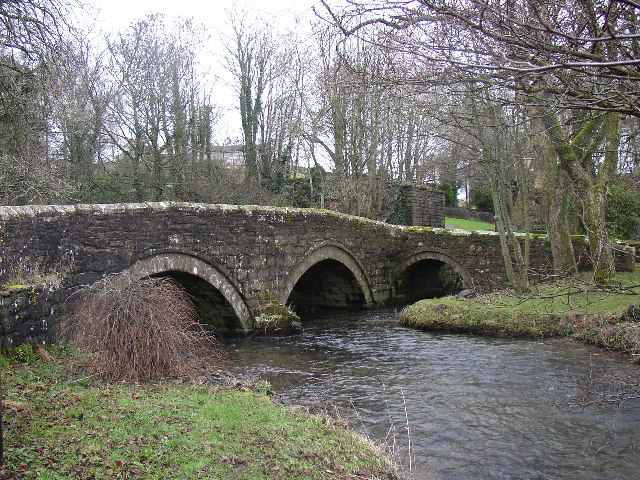 Ullock Bridge, Dean. Actually two bridges; the one on the right carries the driveway to a house, and behind are the remains of a railway bridge across the road.